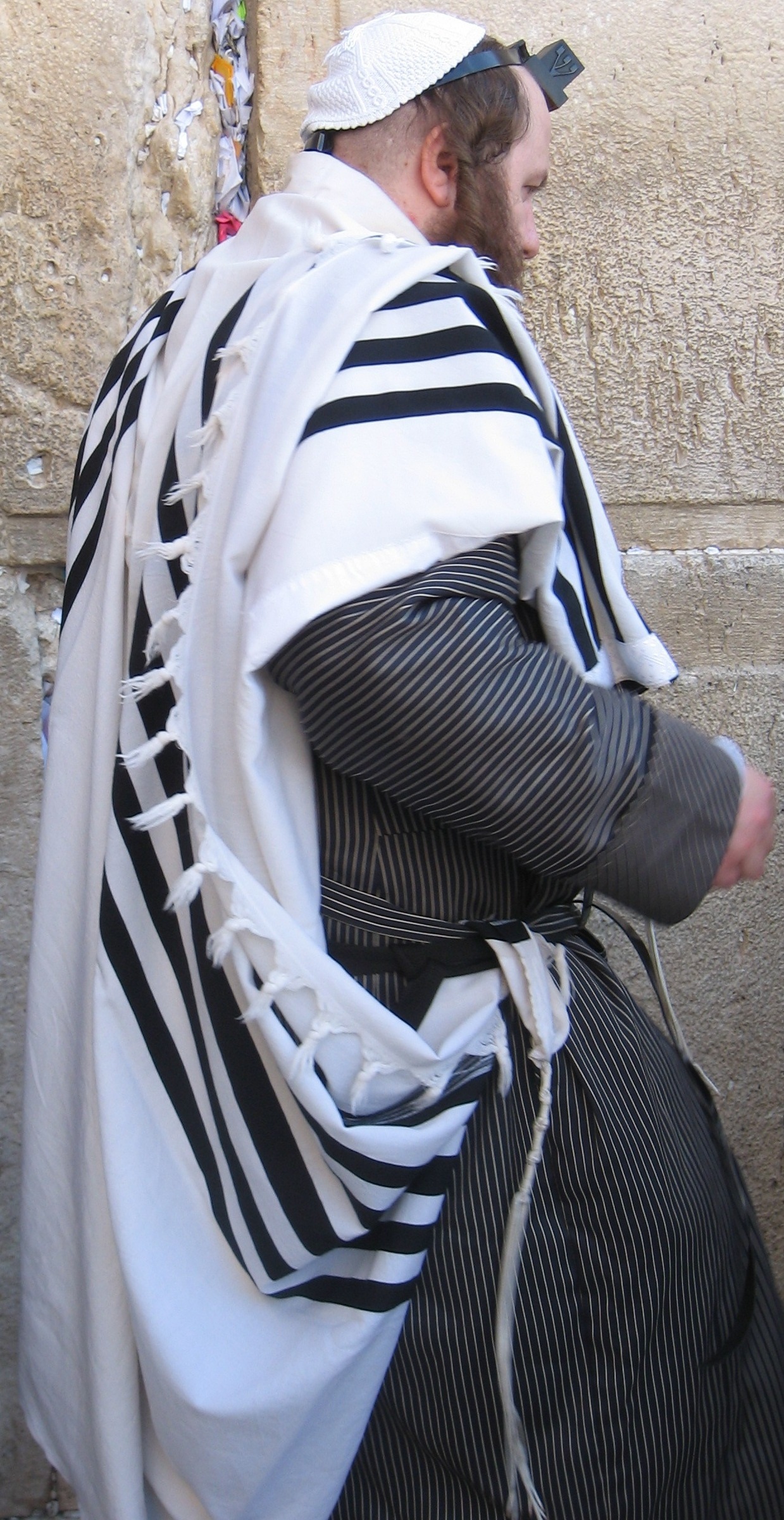 Based on[1]